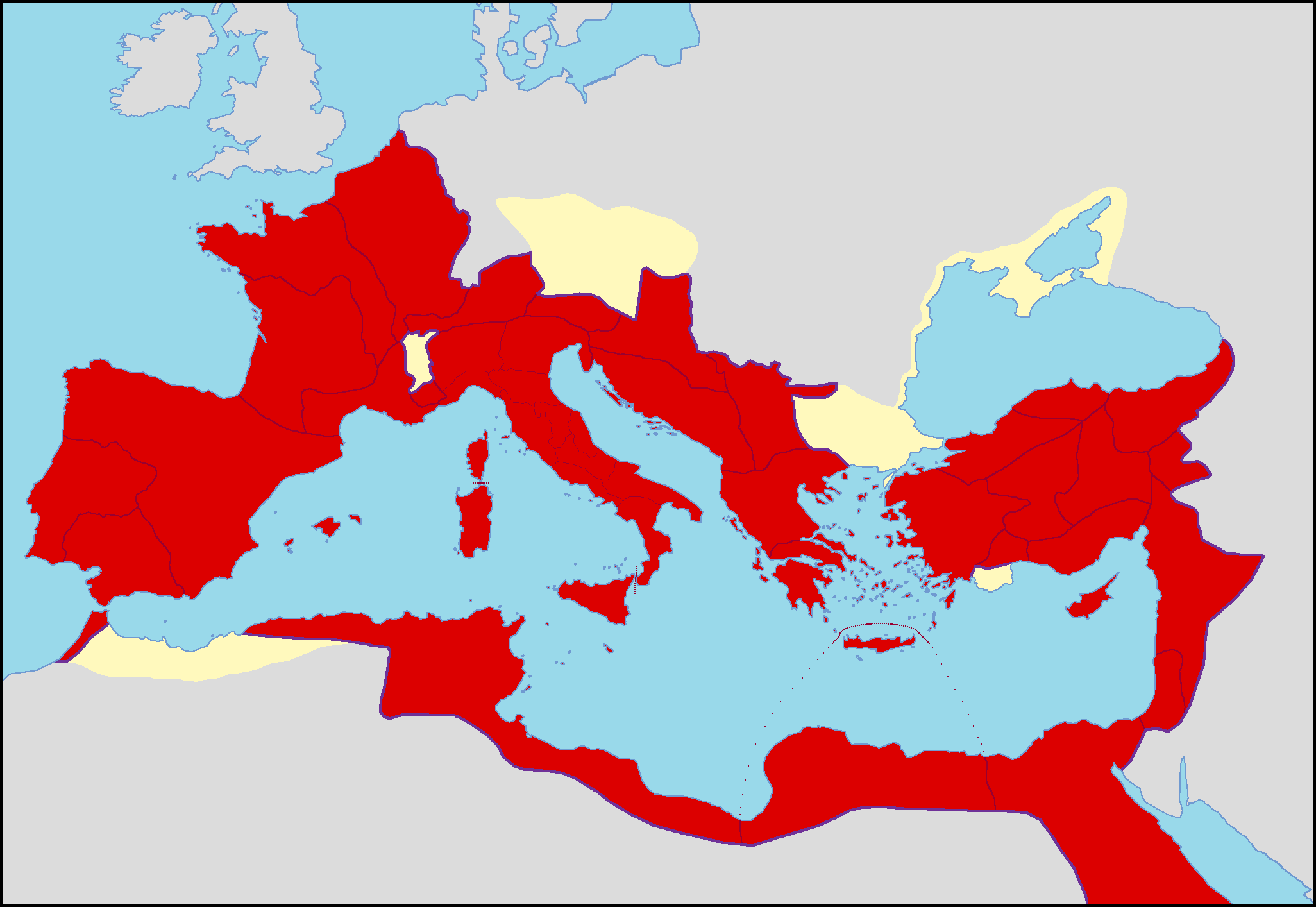 Map of the Roman Empire in 37 AD